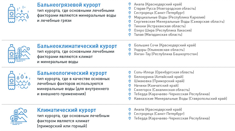 Types of Spa towns in Russia